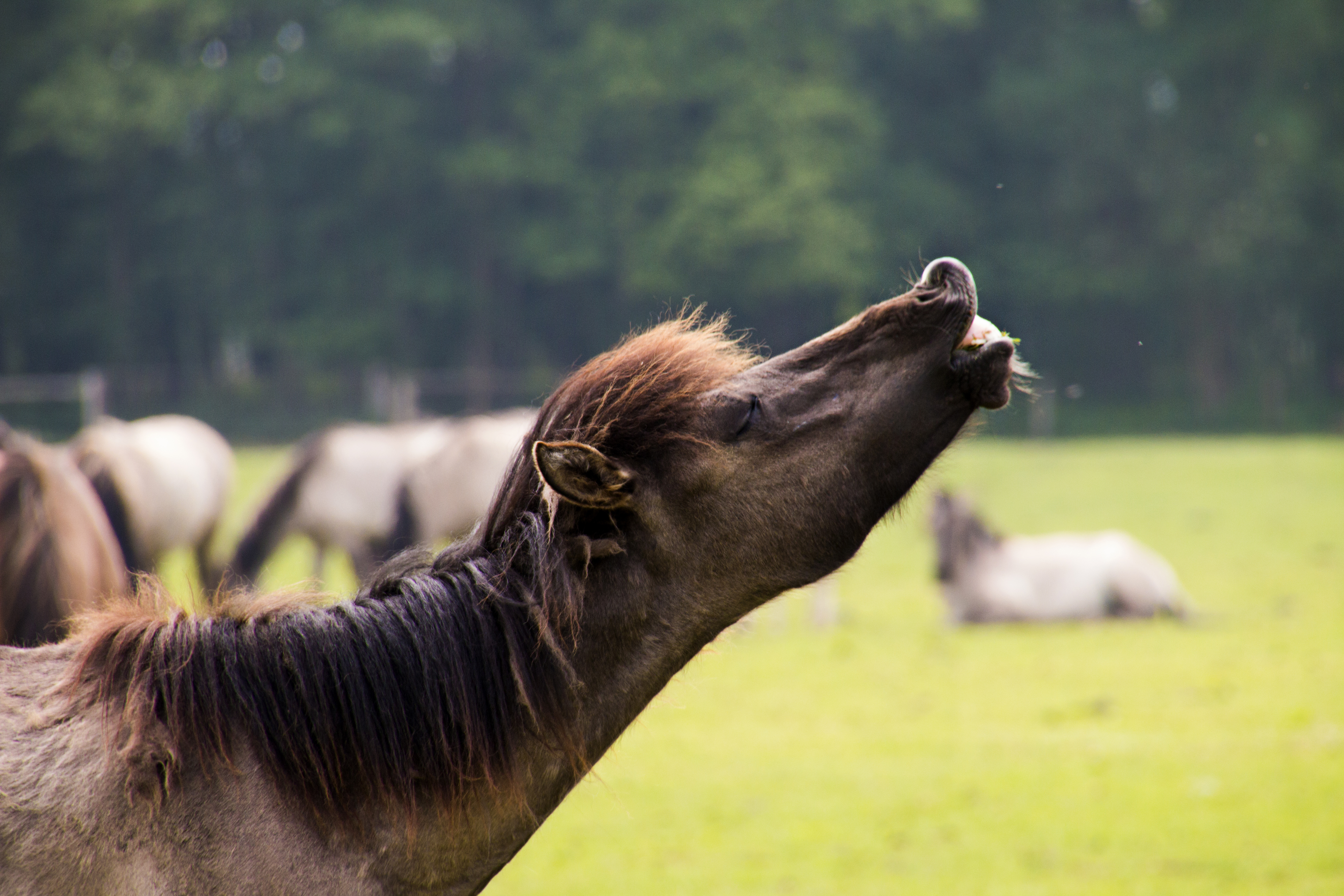 Wieherndes horse in the Merfelder Bruch, Dülmen, Nordrhein-Westfalen